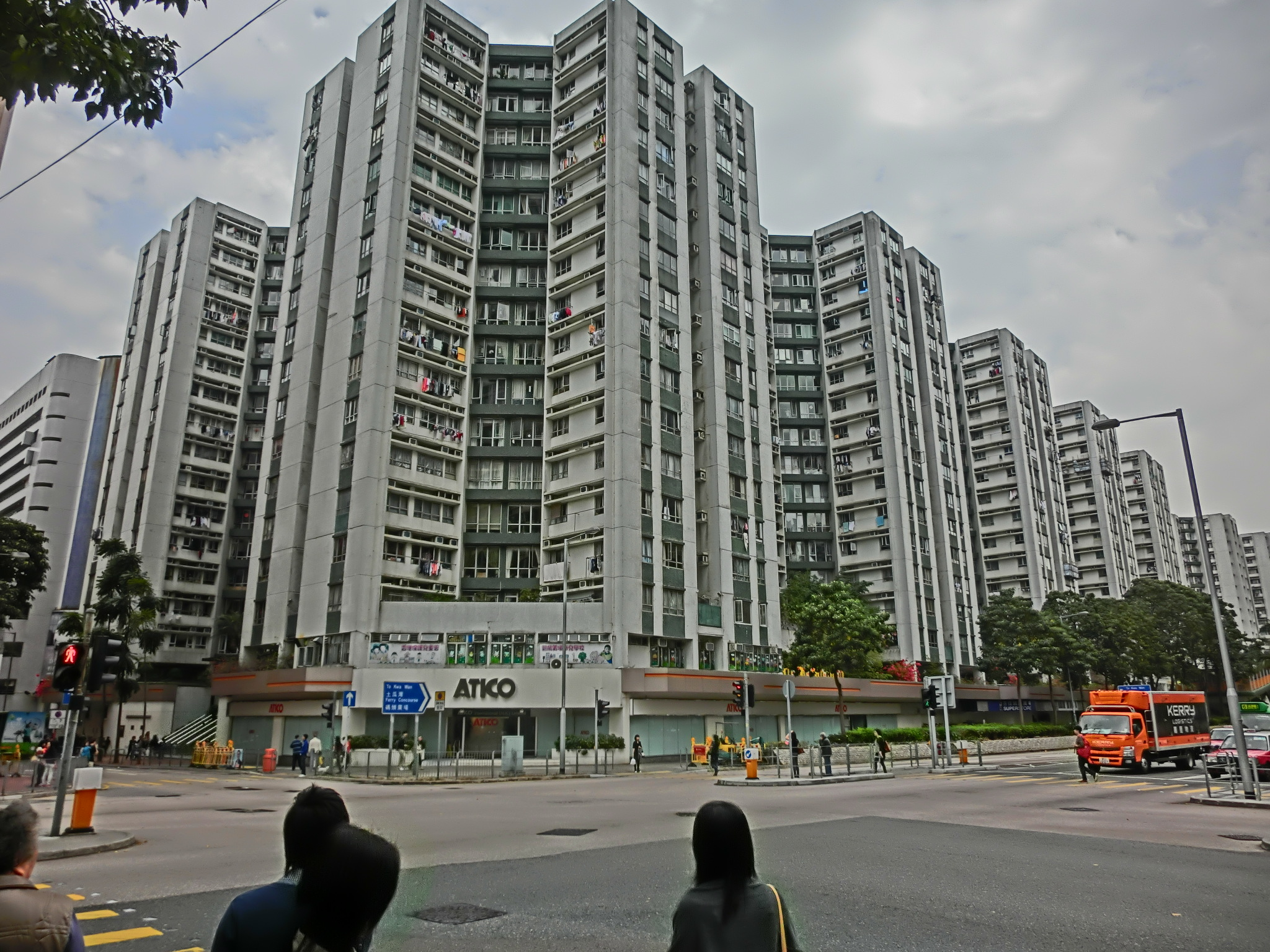 紅磡, Hung Hom, Hong Kong